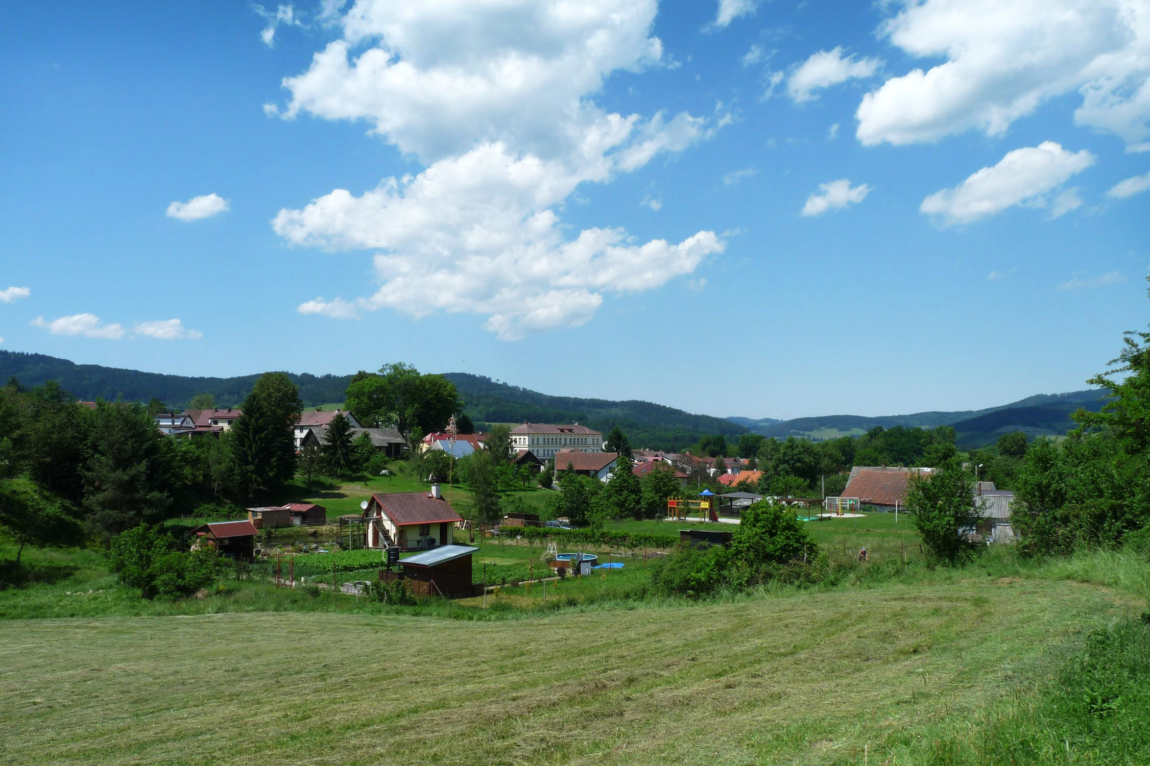 The municipality of Dlouhá Ves, Klatovy District, Plzeň Region, Czech Republic, as seen from the south-east.